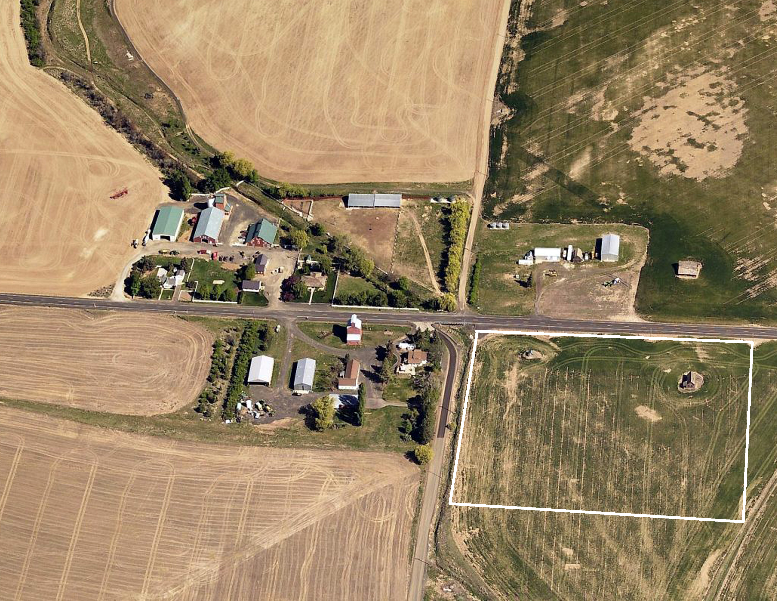 2016 aerial of Lamoine, Washington with white square showing the orginal town-site location of Arup.